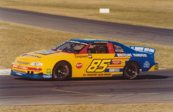 The final Australian NASCAR champion, Andrew Miedecke driving the Whiteline Motorsport Chevrolet Monte Carlo at Queensland Raceway.